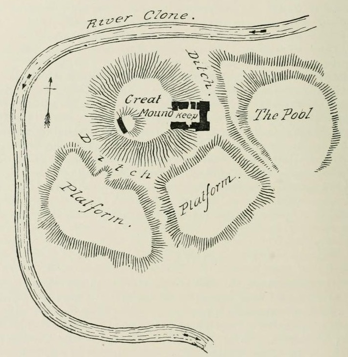 A late Victorian diagram of Clun Castle, from James Mackenzie's 1896 work.